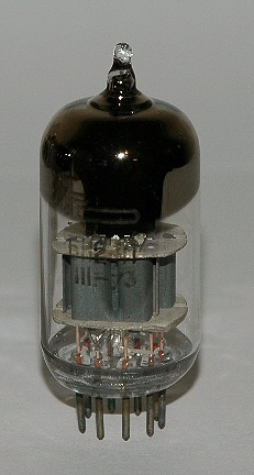 6N24P vacuum tube, USSR (Voskhod Kaluga) 1973